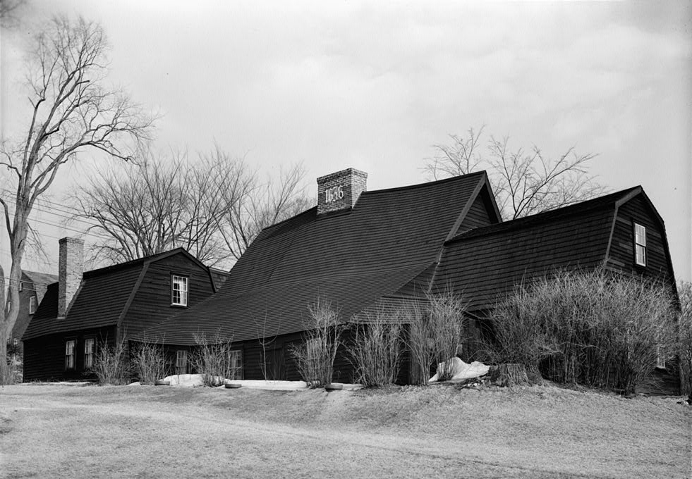 Jonathan Fairbanks House, 511 East Street, Dedham, Norfolk County, MA. General View from South-East.